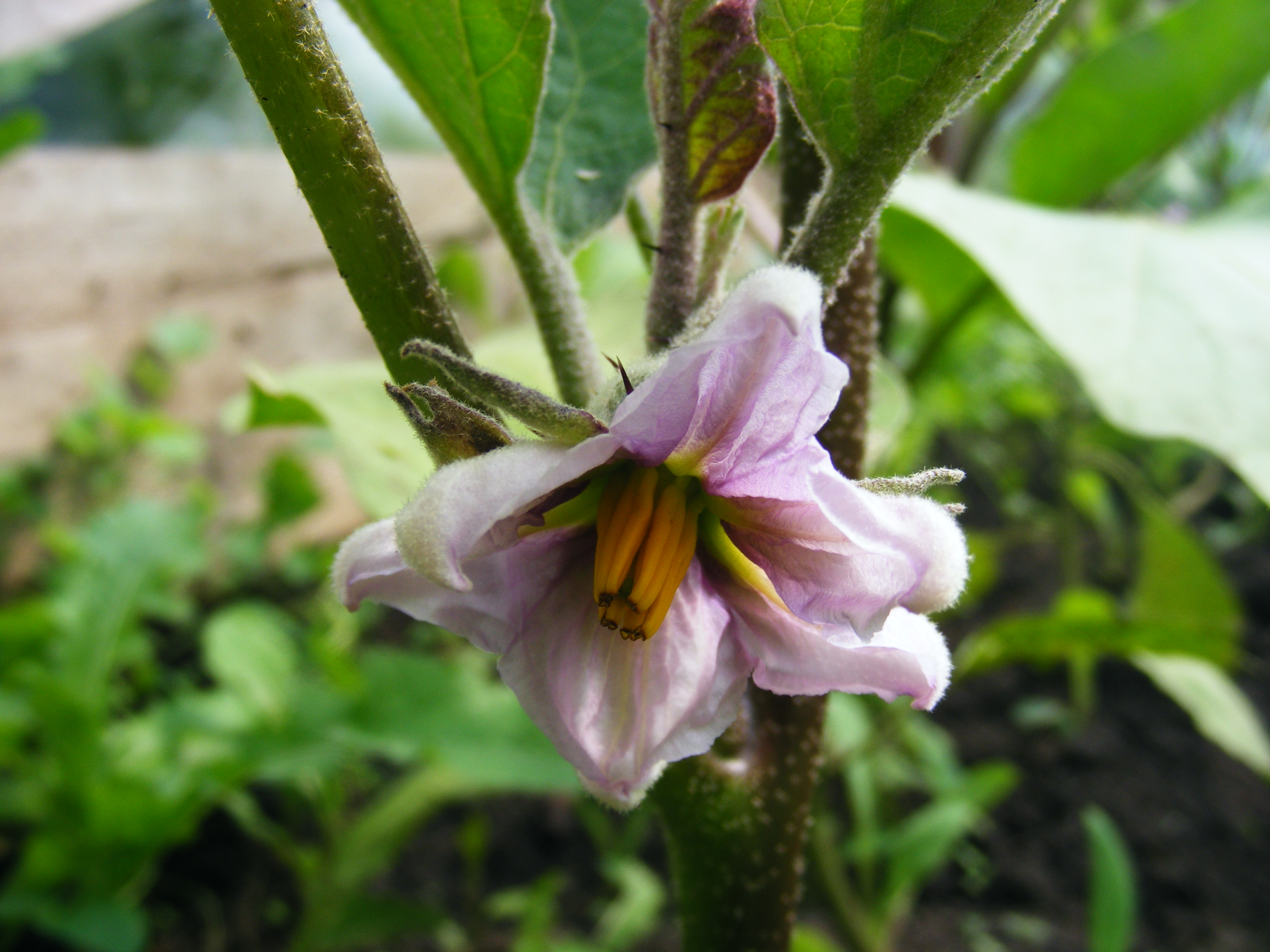 The flower of the Solanum melongena